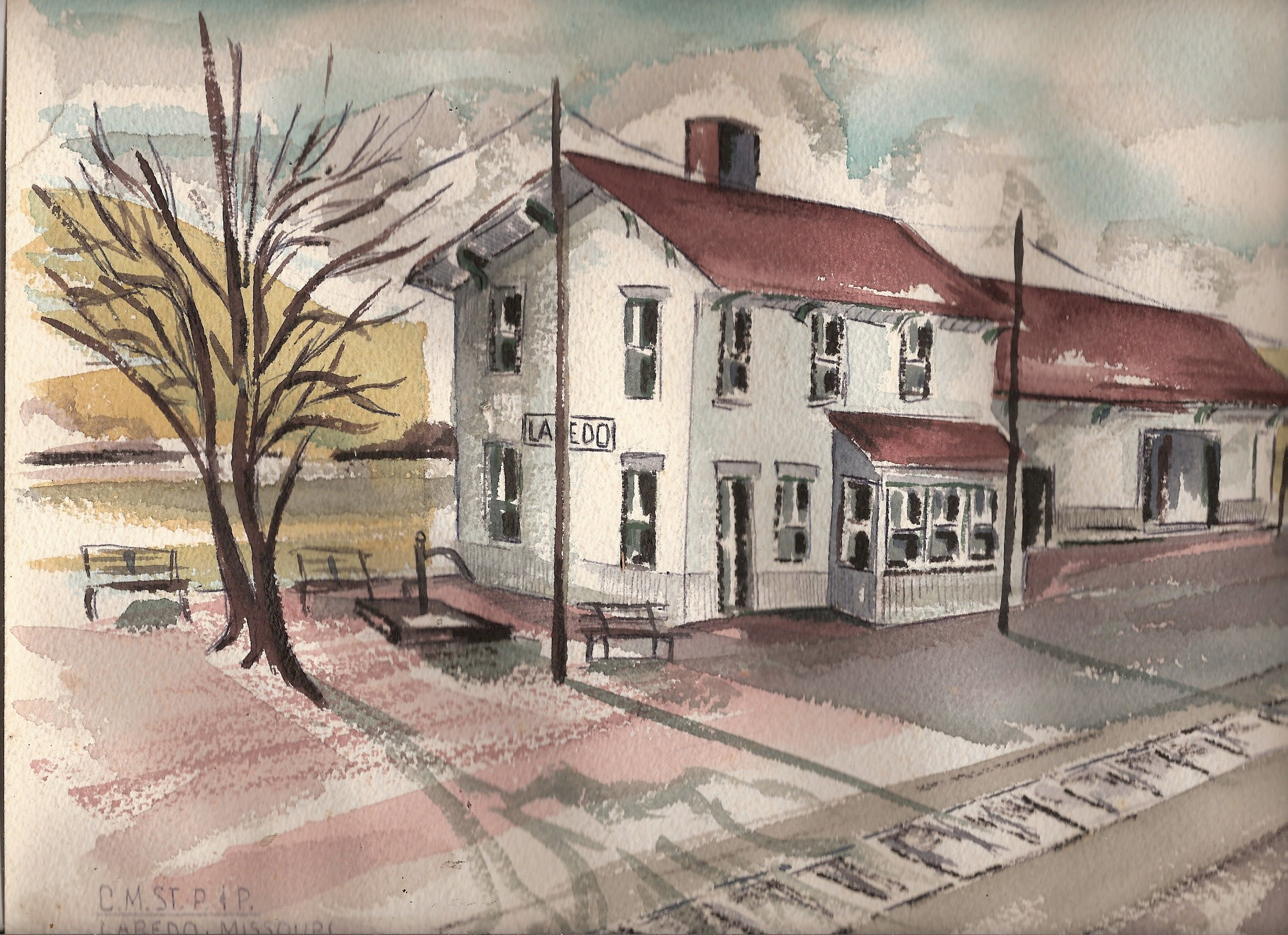 Watercolor of the Milwaukee Railroad depot in Laredo, Missouri. Painting by R.L. Huffstutter, done in the 1960s. The depot no longer exists.